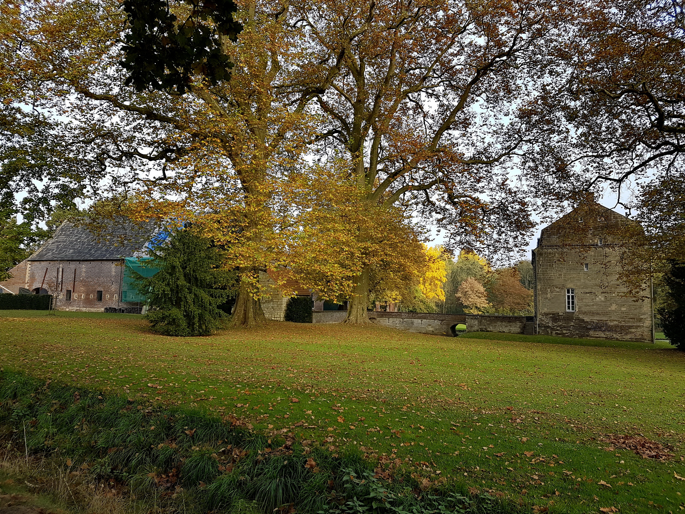 View from the west of Kasteel Puth, a 16th-18th-century manor house in Voerendaal, Limburg, the Netherlands. From left to right: a farm building under renovation, the bake house (between the trees), the bridge over the moat and the main house.The listed park contains several huge plane trees.